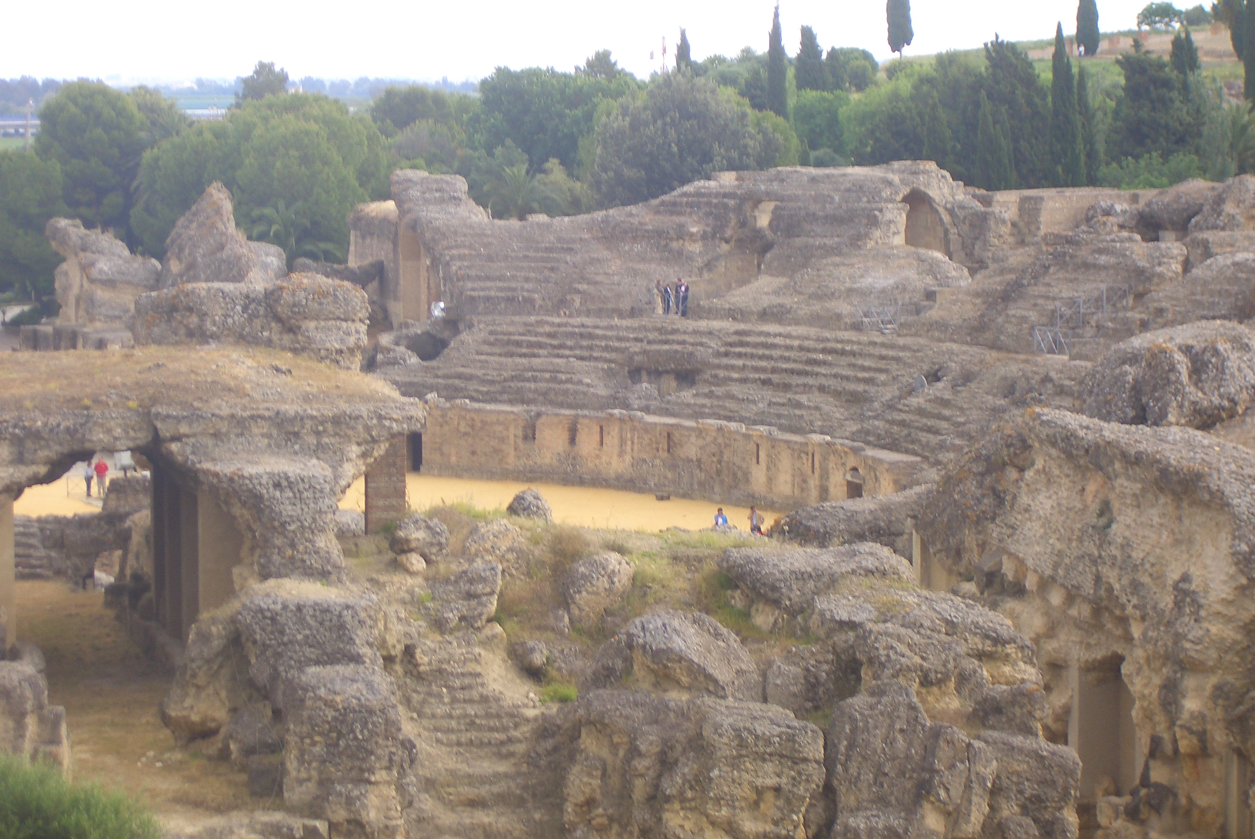 Itálica